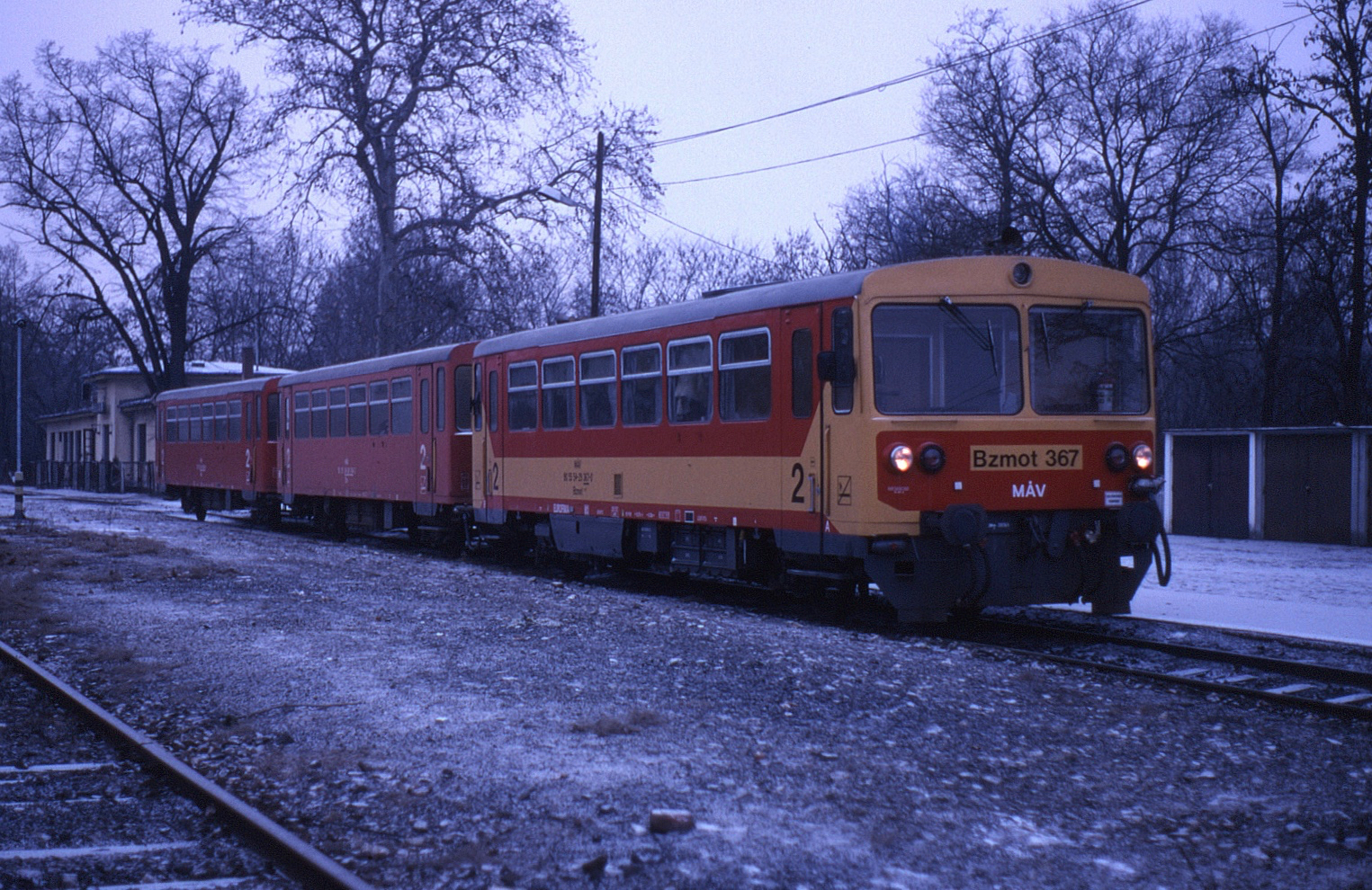 On a cold February morning, MÁV refurbished Bzmot railcar no. 367 and two trailers form train 37017, 07:45 Újszeged to Mezőhegyes. Date taken, 2 February 1998.